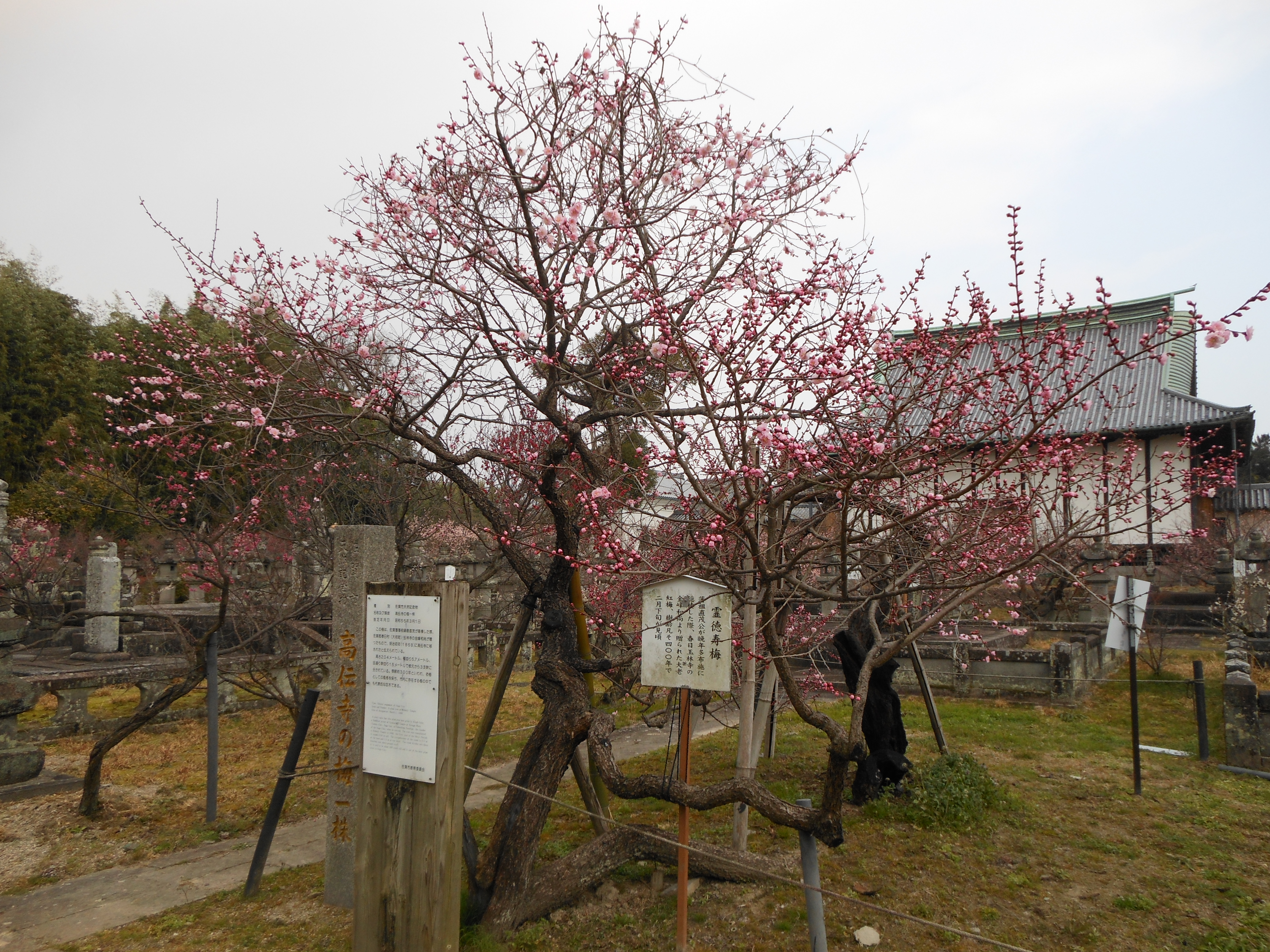 The "Reitokuju-bai" old plum tree at Kōden-ji Temple, in Saga City.